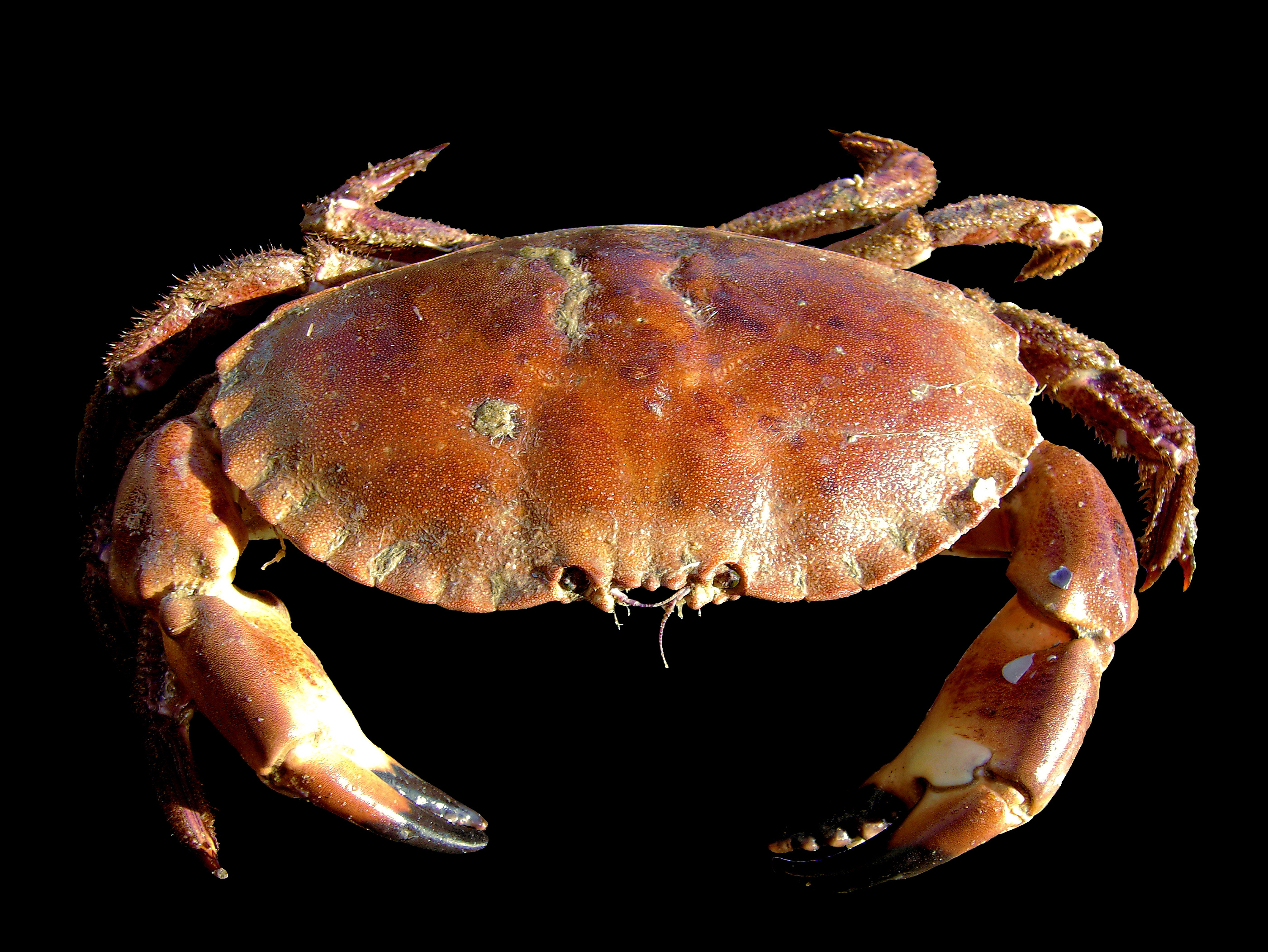 Edible crab form the Belgian part of the North Sea.